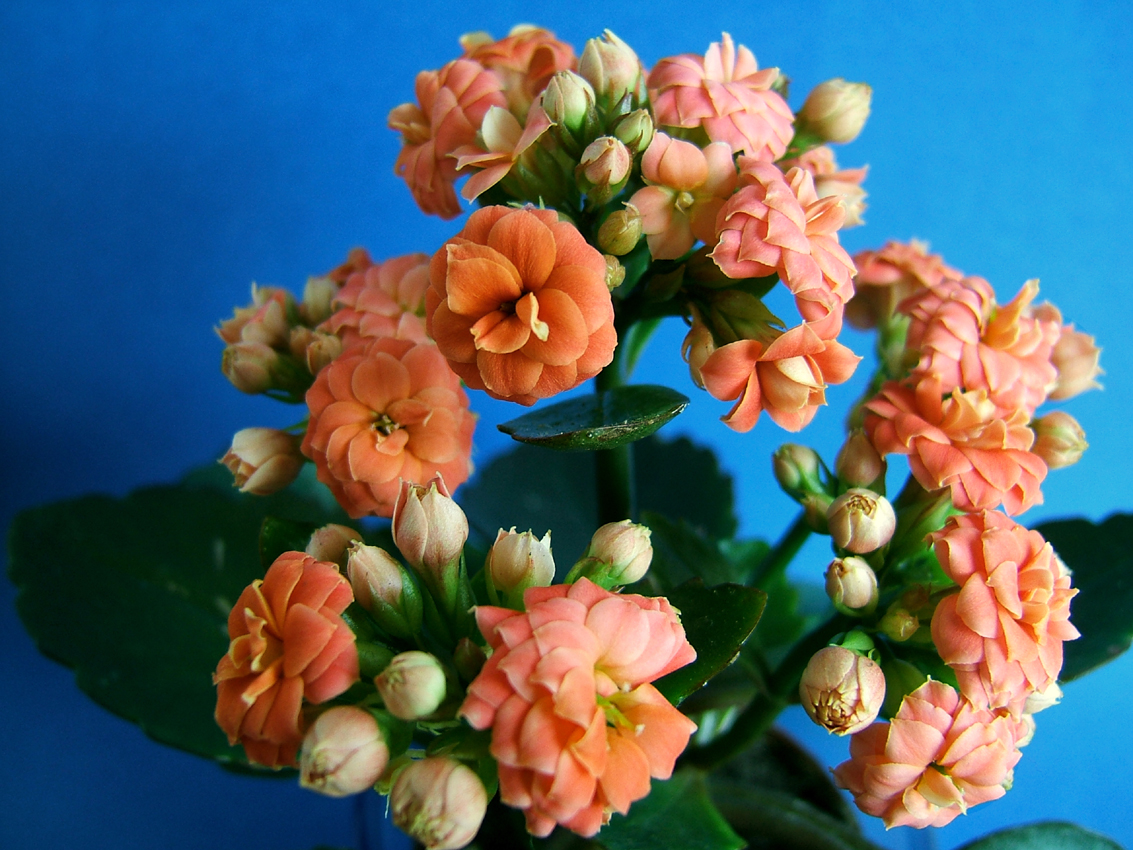 Flaming Katy